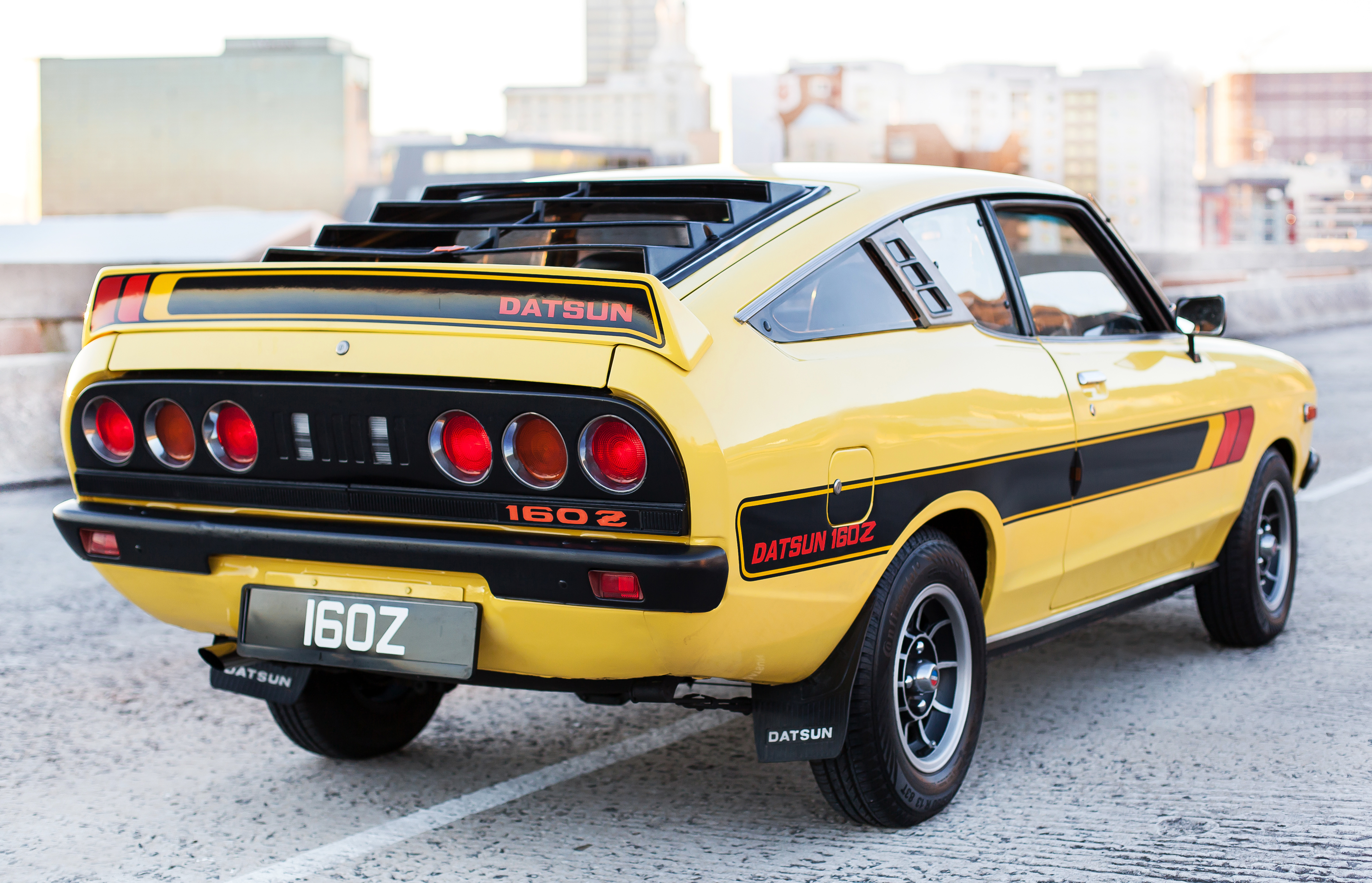 Canary yellow Nissan-Datsun (B210) 160Z Sports Coupe, South African. Six rear round lights. Courtesy of Lee-Ann Vigus - &